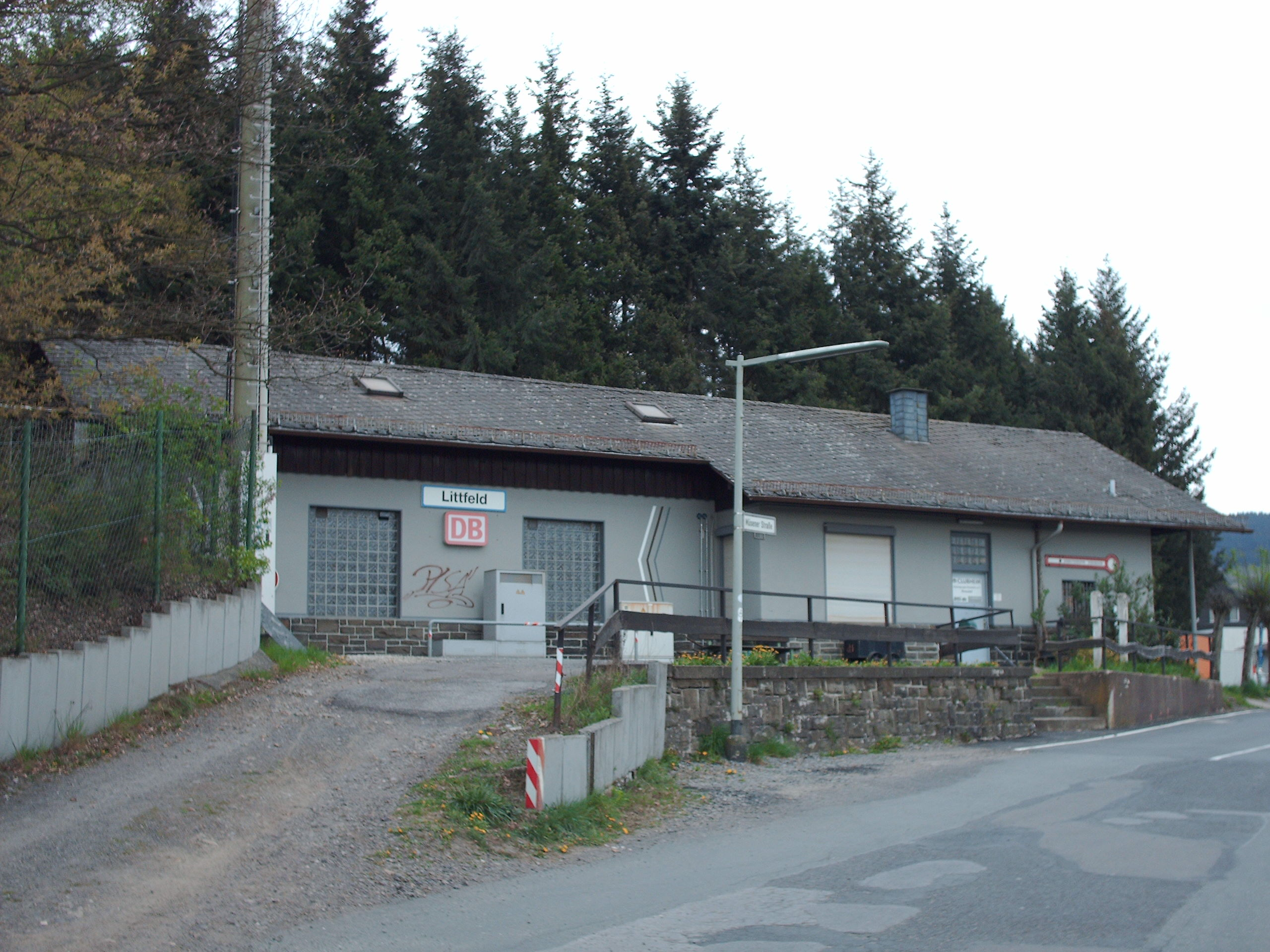 Littfeld station, Kreuztal, Germany check usage